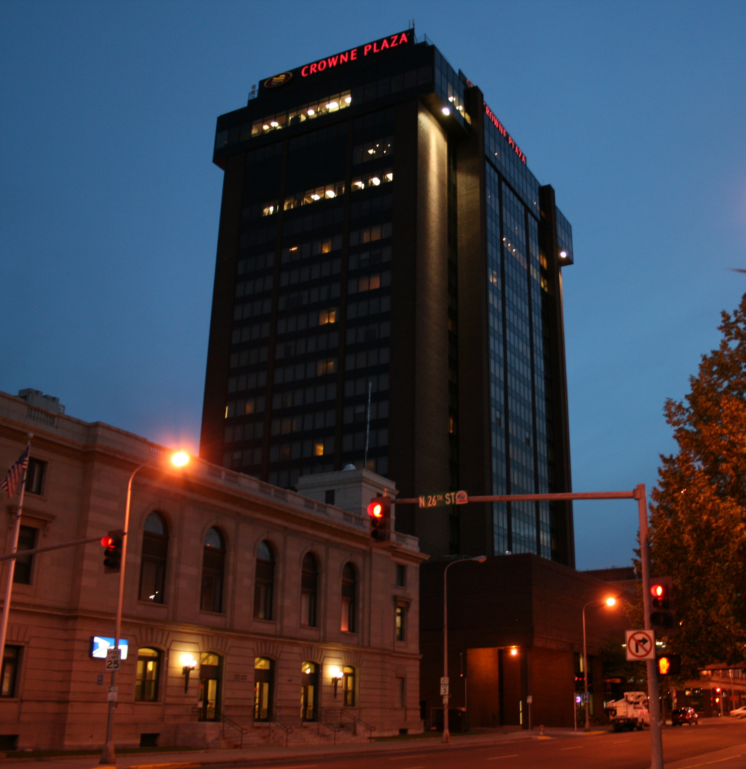 Crowne PLaza Billings, Montana